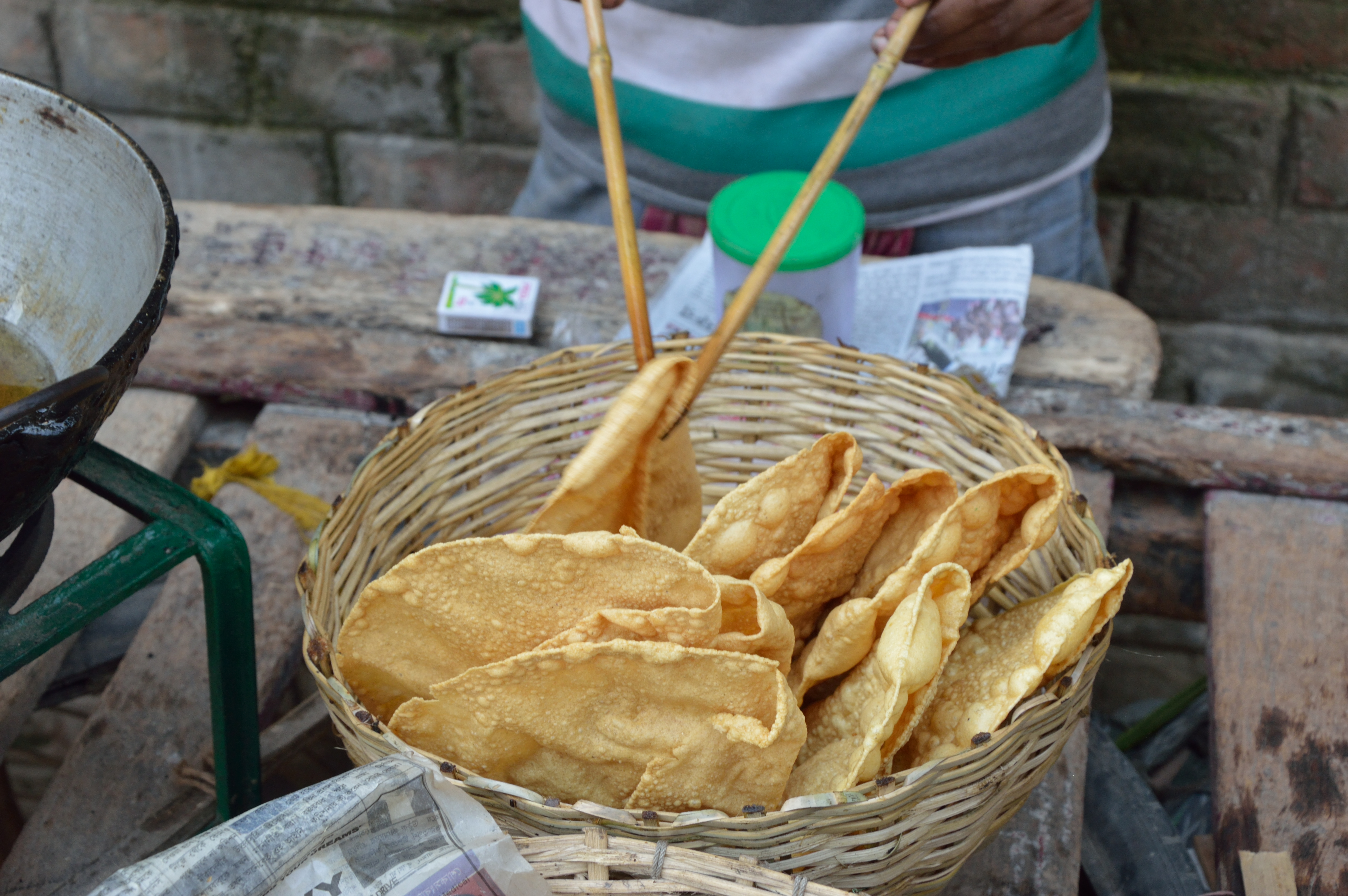 Food from West Bengal.